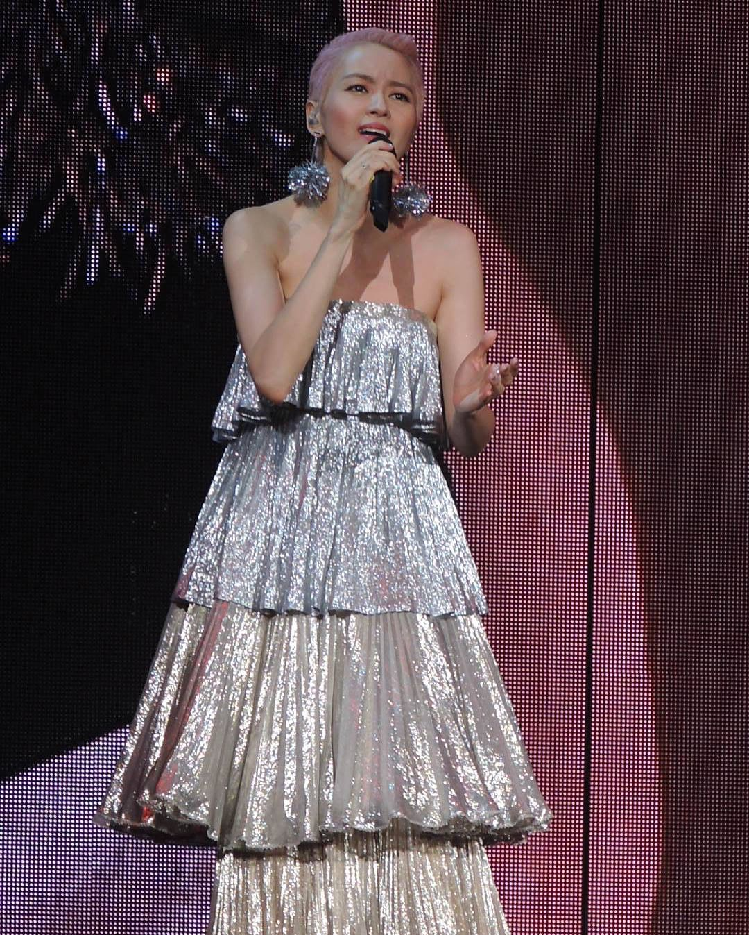 gigi leung in 2018 Good Time Concert Hong Kong